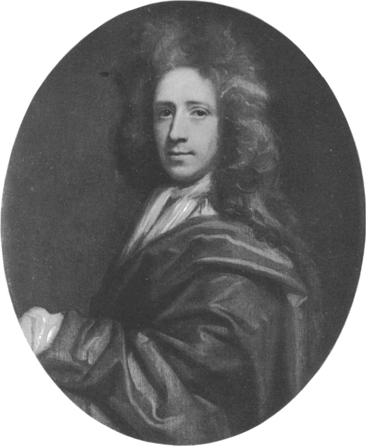 Richard Waller (c. 1650-1715)